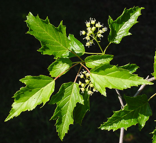 Acer ginnala with flowers